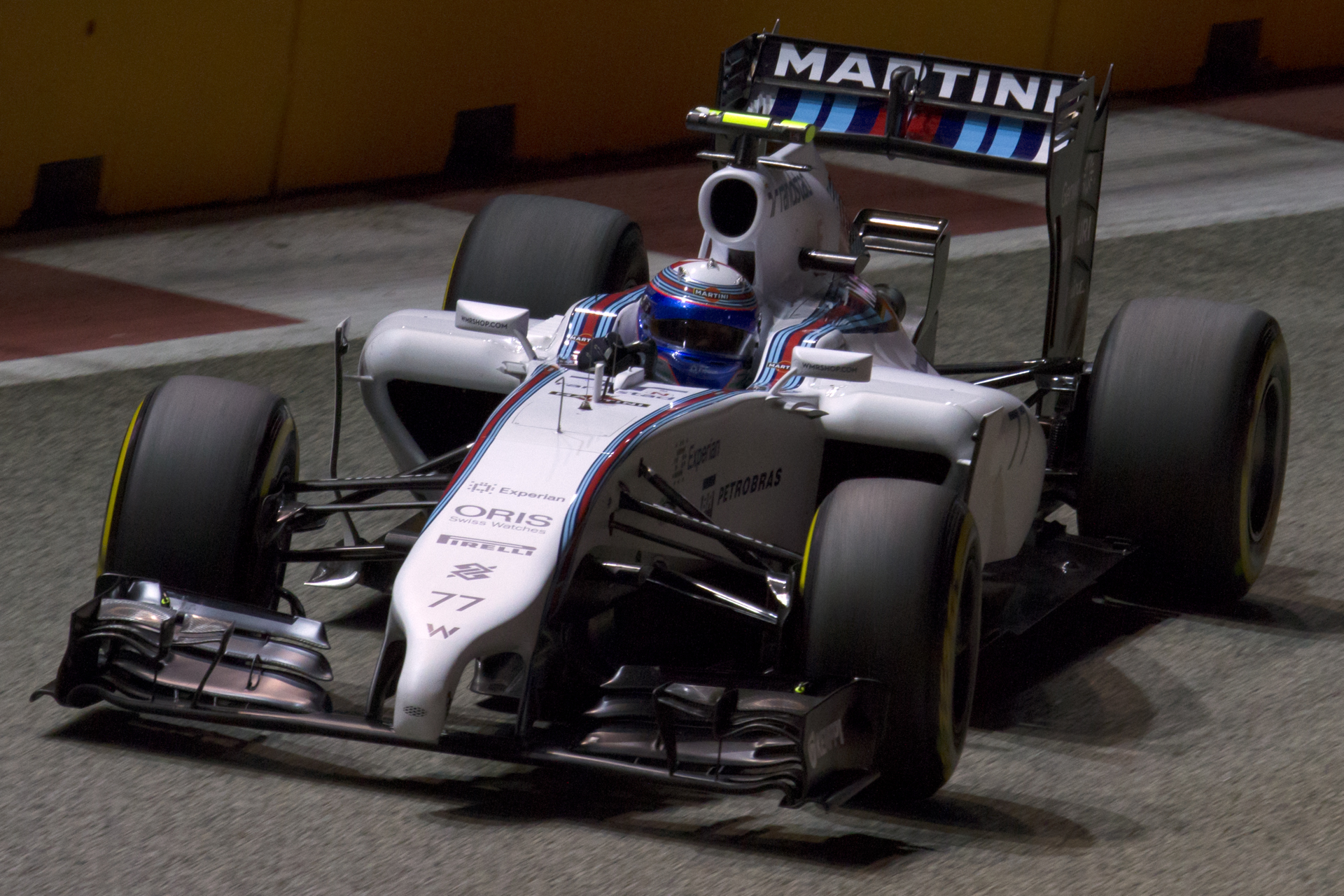 Formula One 2014 Rd.14 Singapore GP: Valtteri Bottas (WilliamsF1)